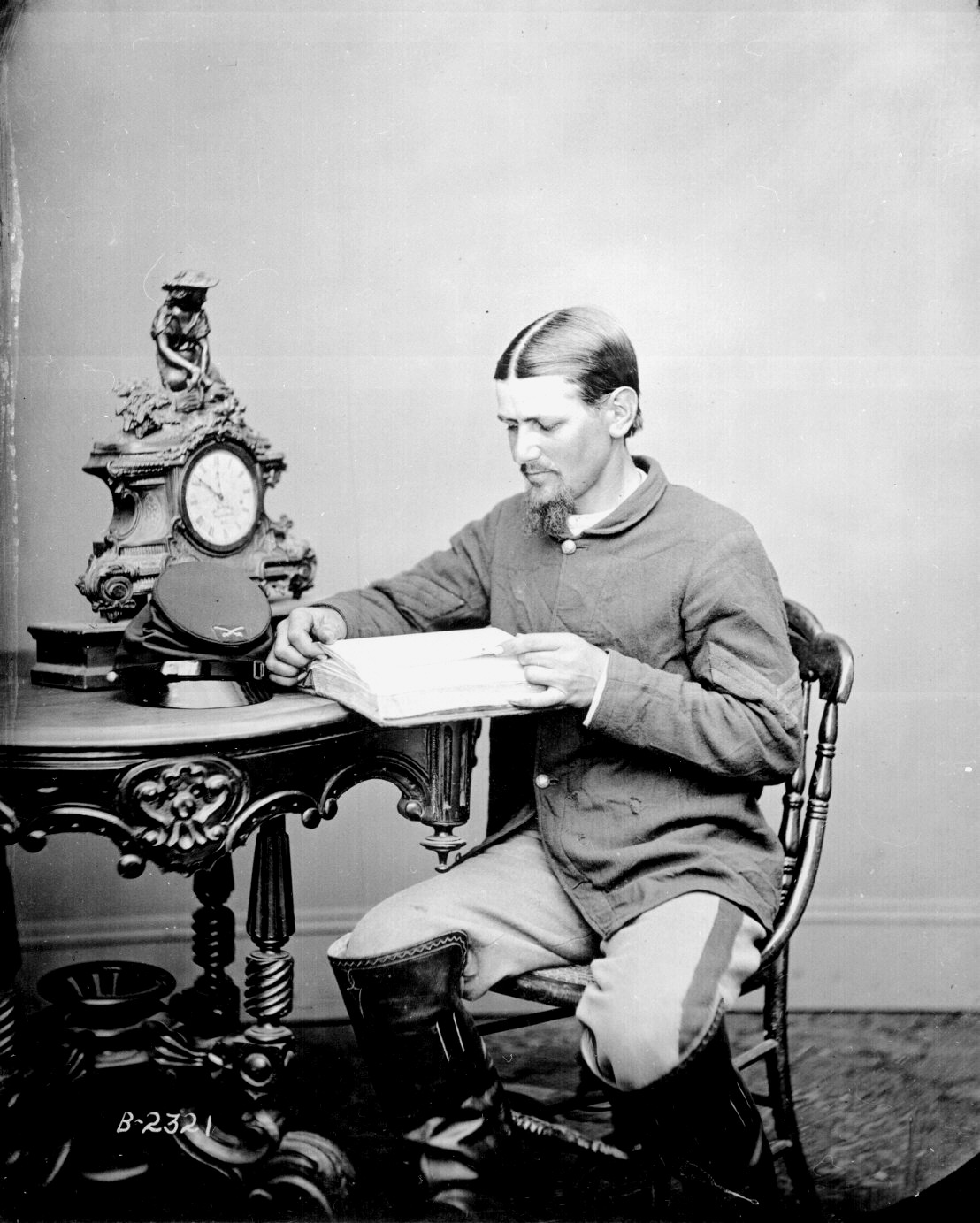 Crop of a portrait of Boston Corbett.